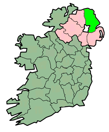 Location of County Antrim (Condae na hAontroma) (light green) within Northern Ireland (pink) in the island of Ireland (green)